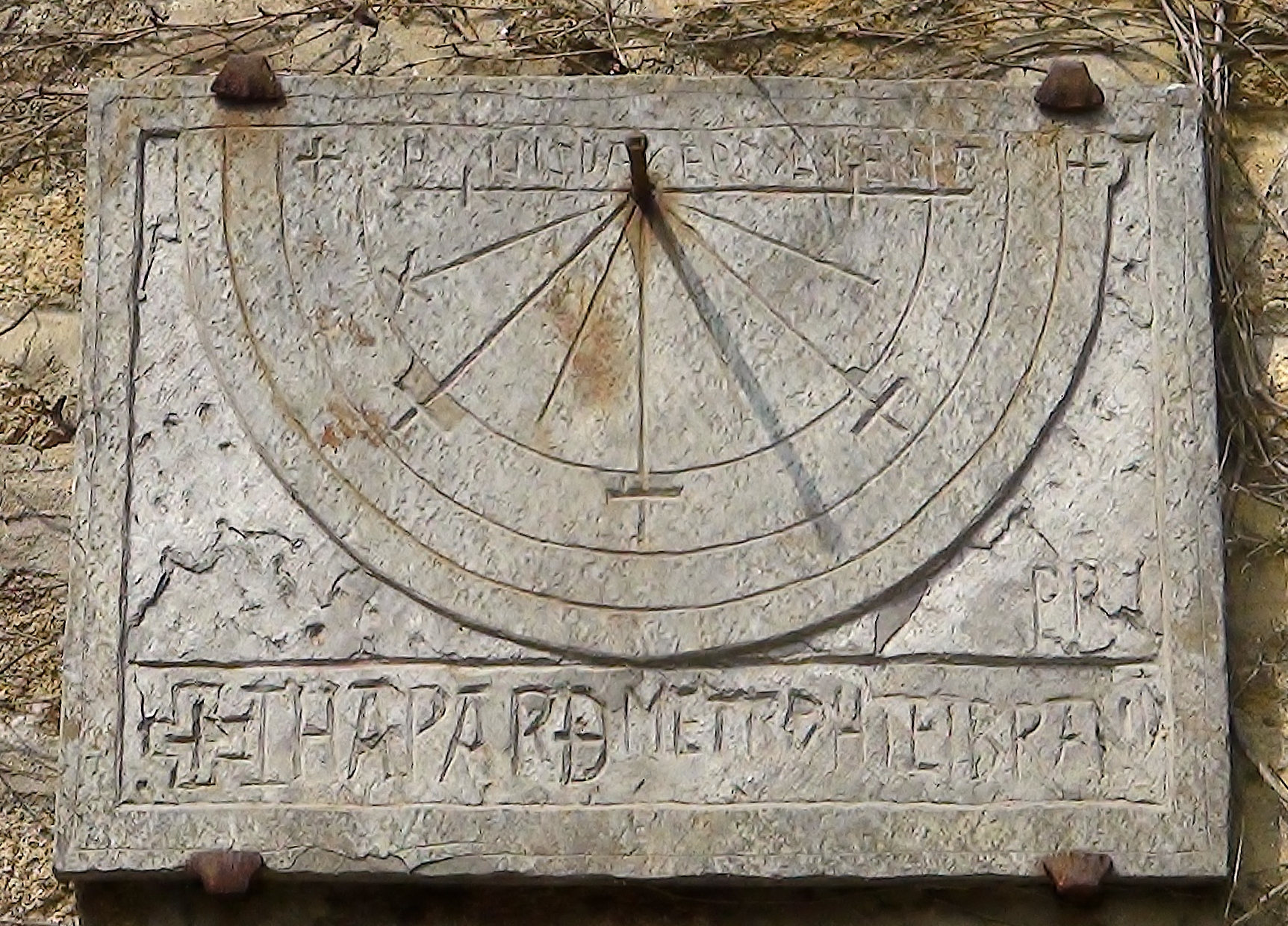 Sundial in Dinand (Bretagne, France).